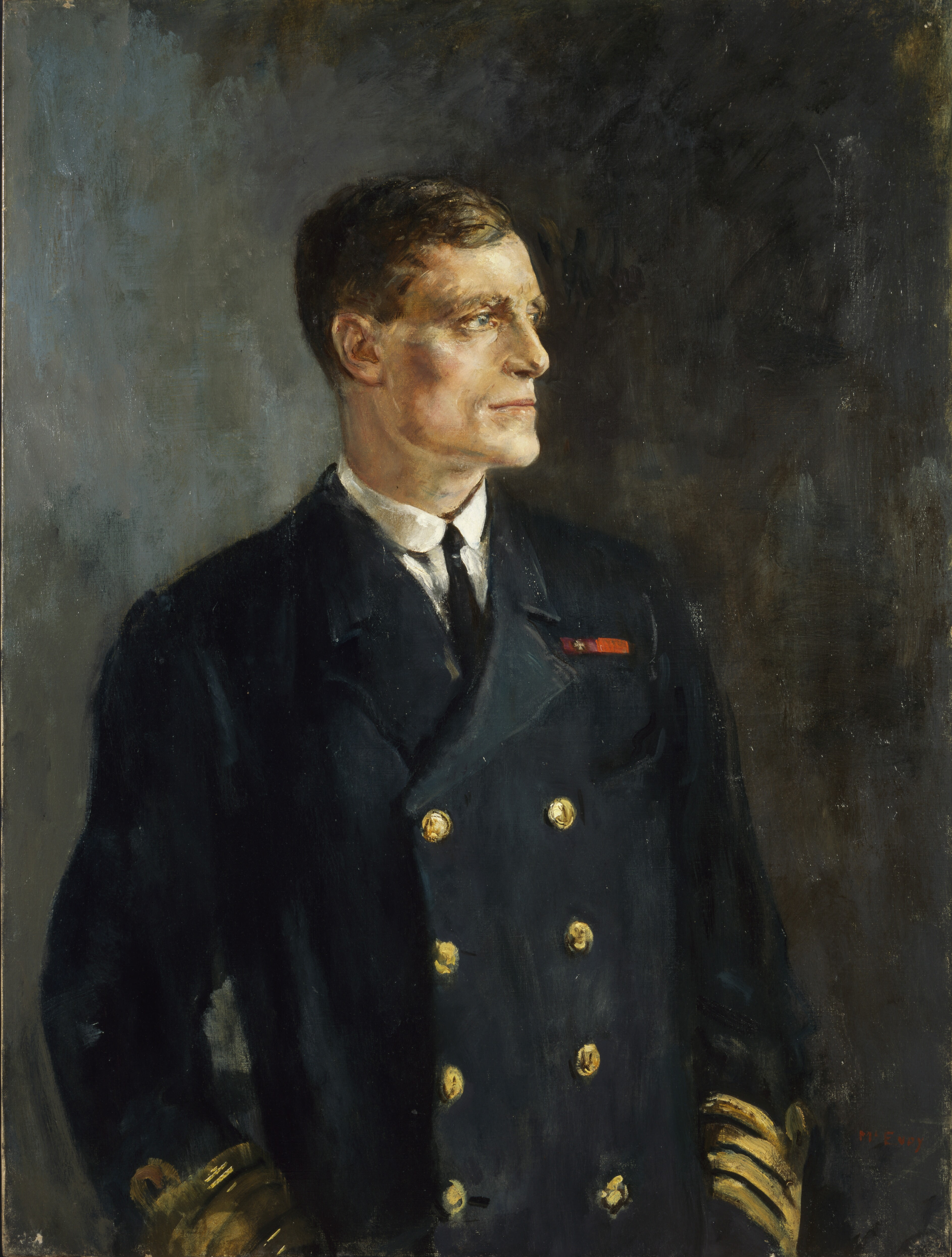 Captain M E Nasmith, Vc, Rn - 1918 image: A half-length portrait of Nasmith in naval uniform, shown in profile looking to the right. He has his hands in his pockets.